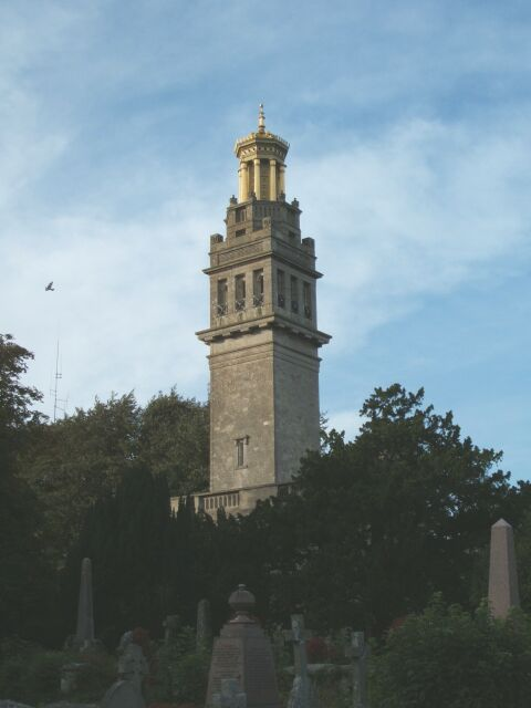 Beckfords Tower